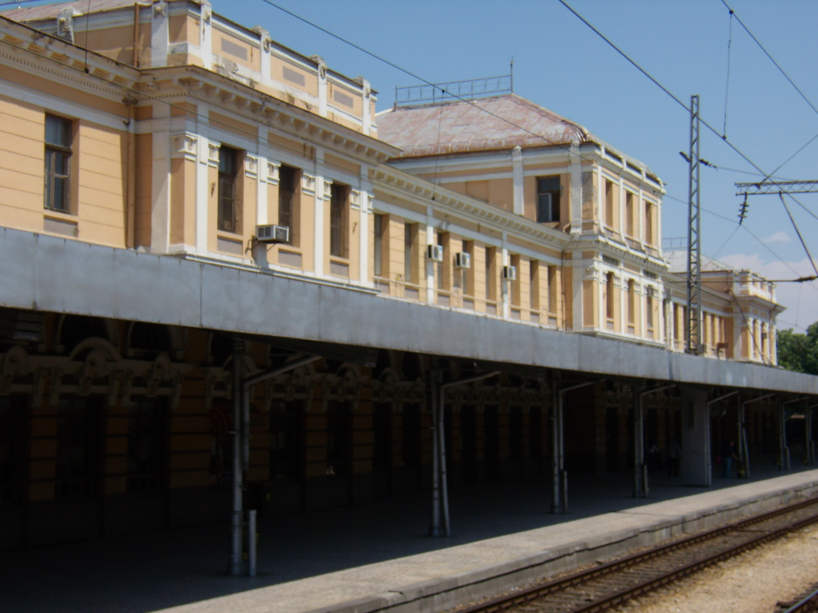 Central Railway Station of Plovdiv, Southern Bulgaria